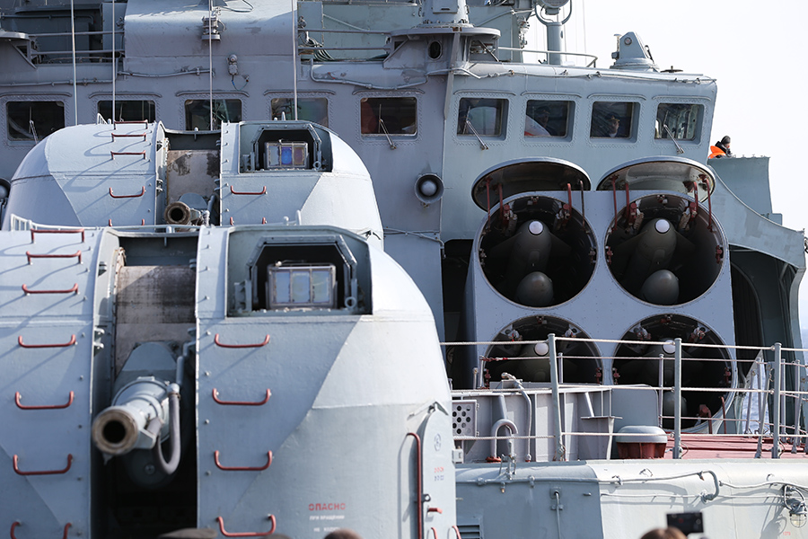 Permanent group of the Russian Navy in the Mediterranean Sea provides air defence in Syria